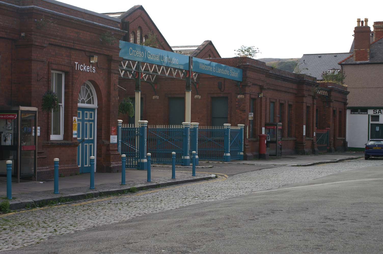 The 1892 entrance to Llandudno railway station